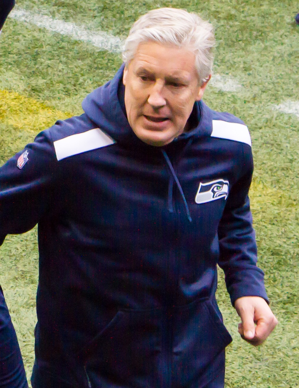 Pete Carroll, Seahawks vs Rams 12.29.13